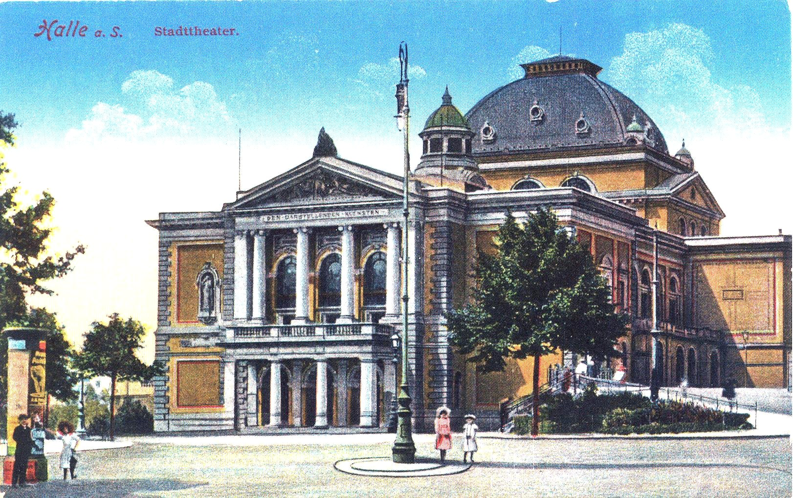 Stadttheater in Halle about 1905